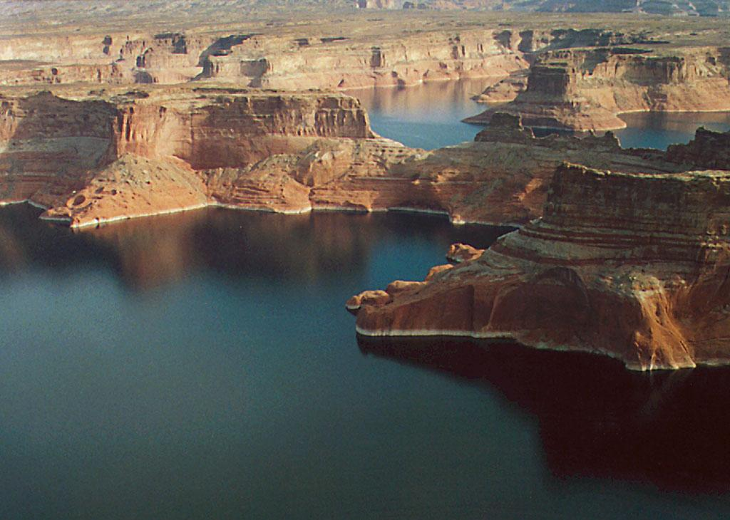 Lake Powell from above Wahweap Marina.